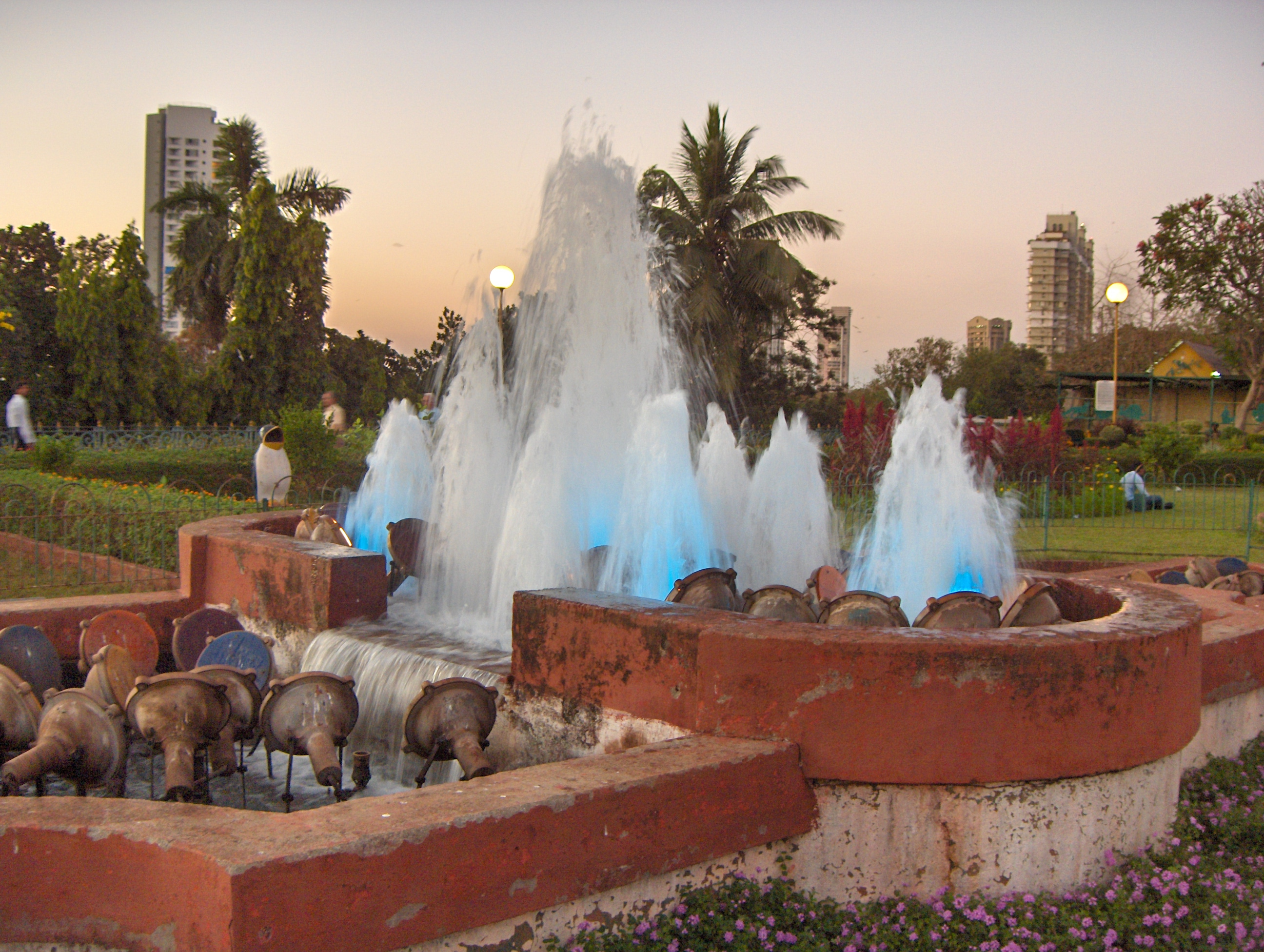 Hanging Gardens in Mumbai